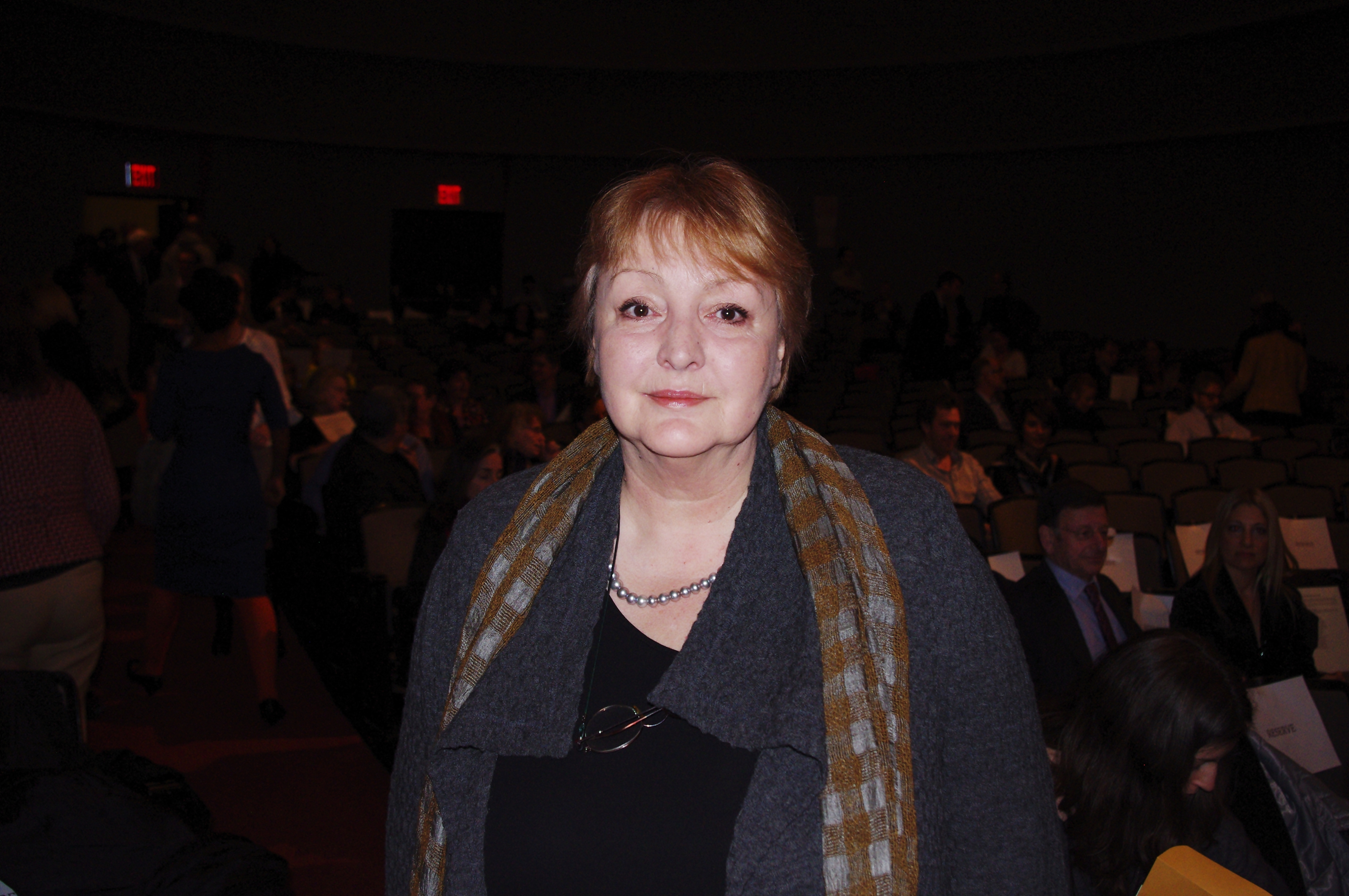 Dubravka Ugresic at the National Book Critics Circle Awards, where her book Karaoke Culture: Essays was nominated for the criticism award.